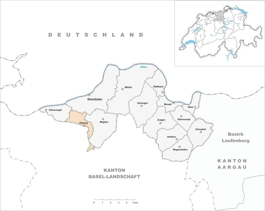 Municipality Olsberg